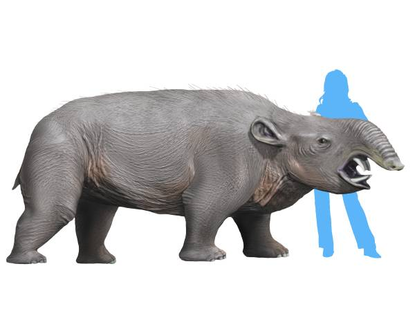 Life reconstruction of Pyrotherium romeroi